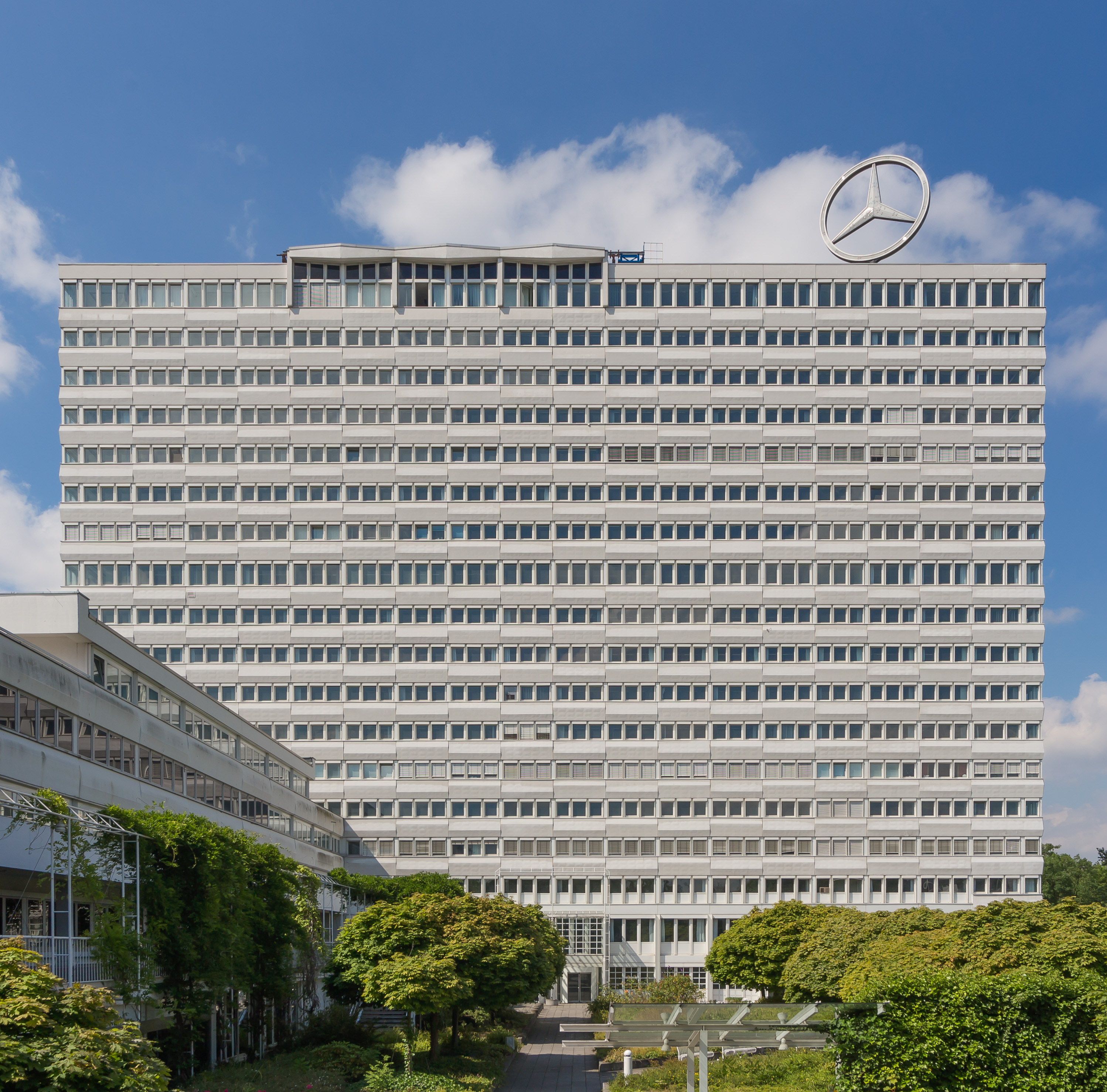 Bonn-Center, Bonn-Gronau